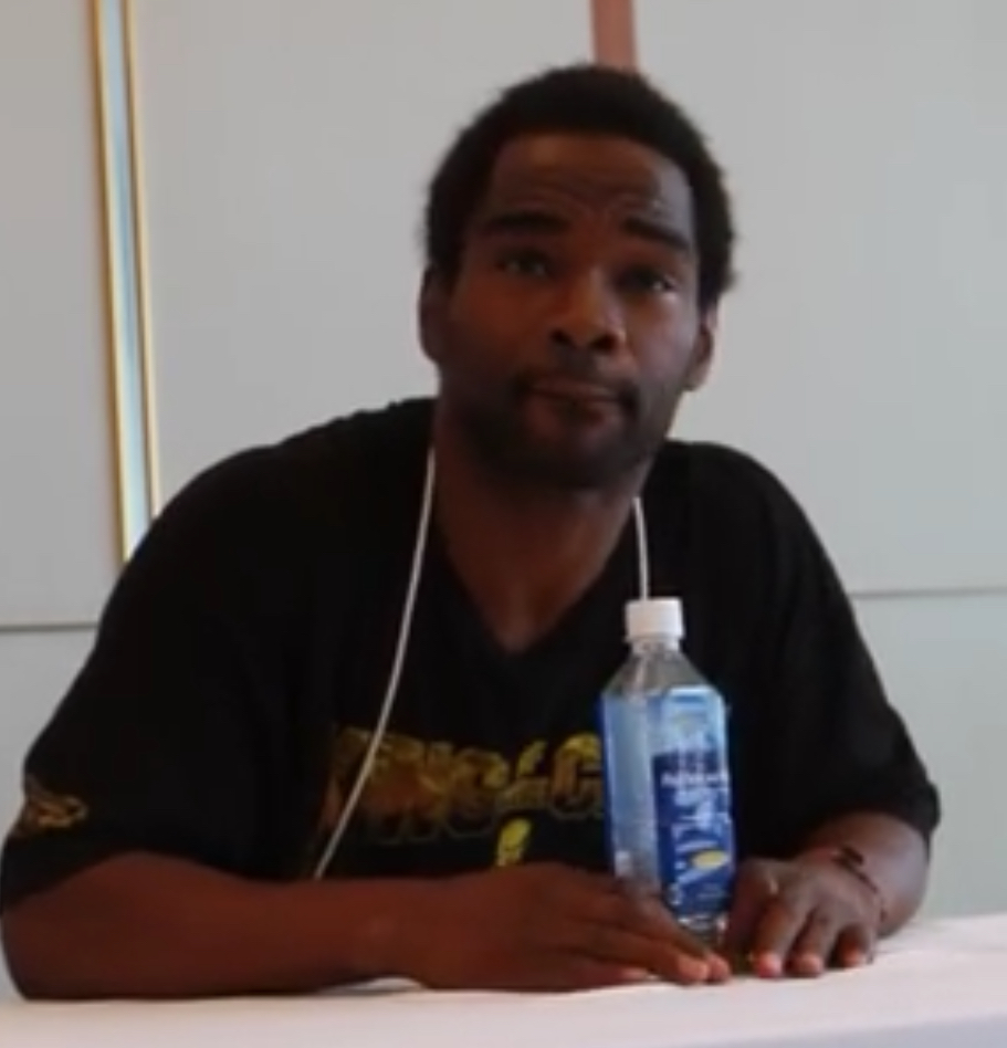 Planeta Octógono - Gazeta Esportiva Por Bruno Massami